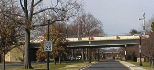 Photo of an overpass, Potomac Park, Washington, DC.